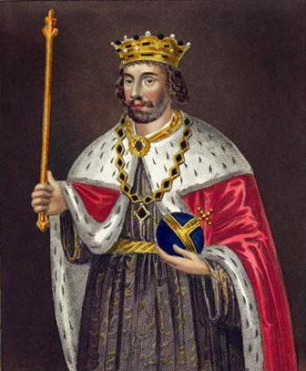 Portrait of Edward II of England.